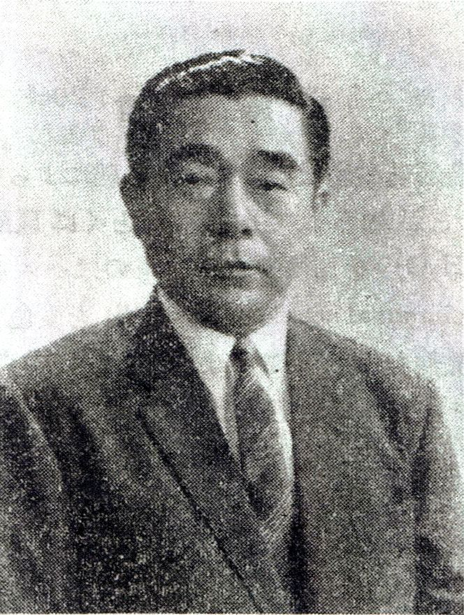 Kenichi Fukui